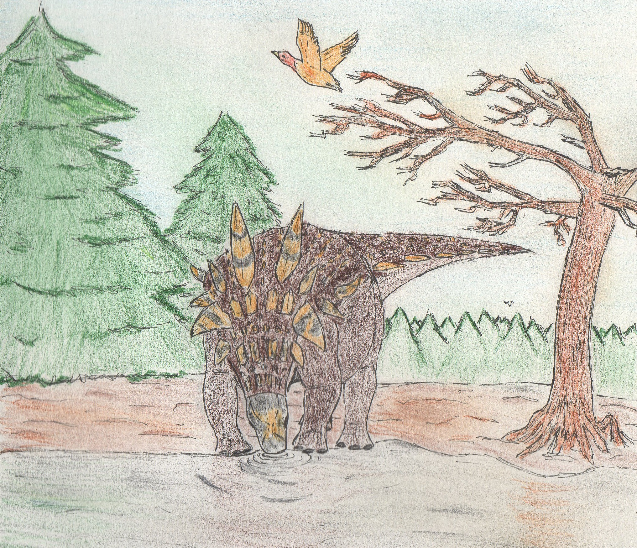 Antarctopelta oliveroi and a bird like Vegavis iaai